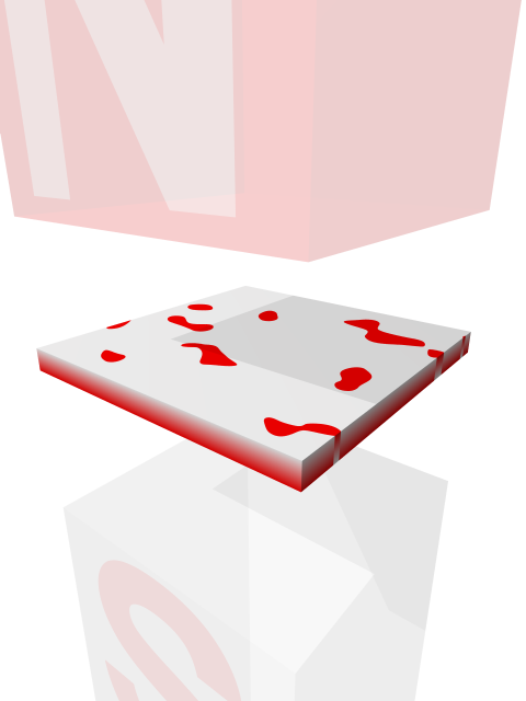 This image shows how one kind of domain in the orthomagnetic sheet of magnetic bubble memory grows and the other shrinks, as an external magnetic field (the big magnet poles) is imposed on them.